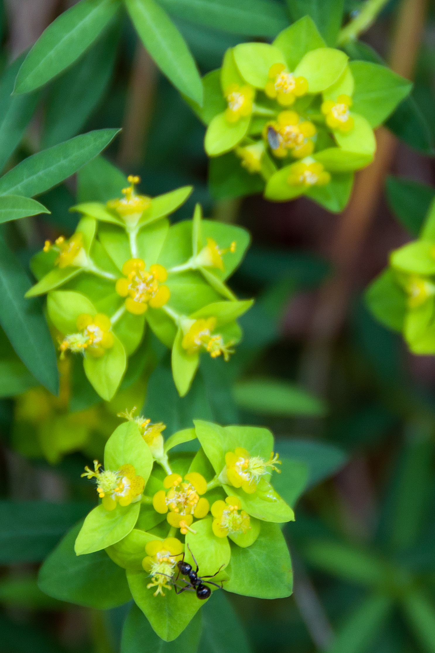 Euphorbia angulata on the rim trail at Škocjan Caves in Slovenia